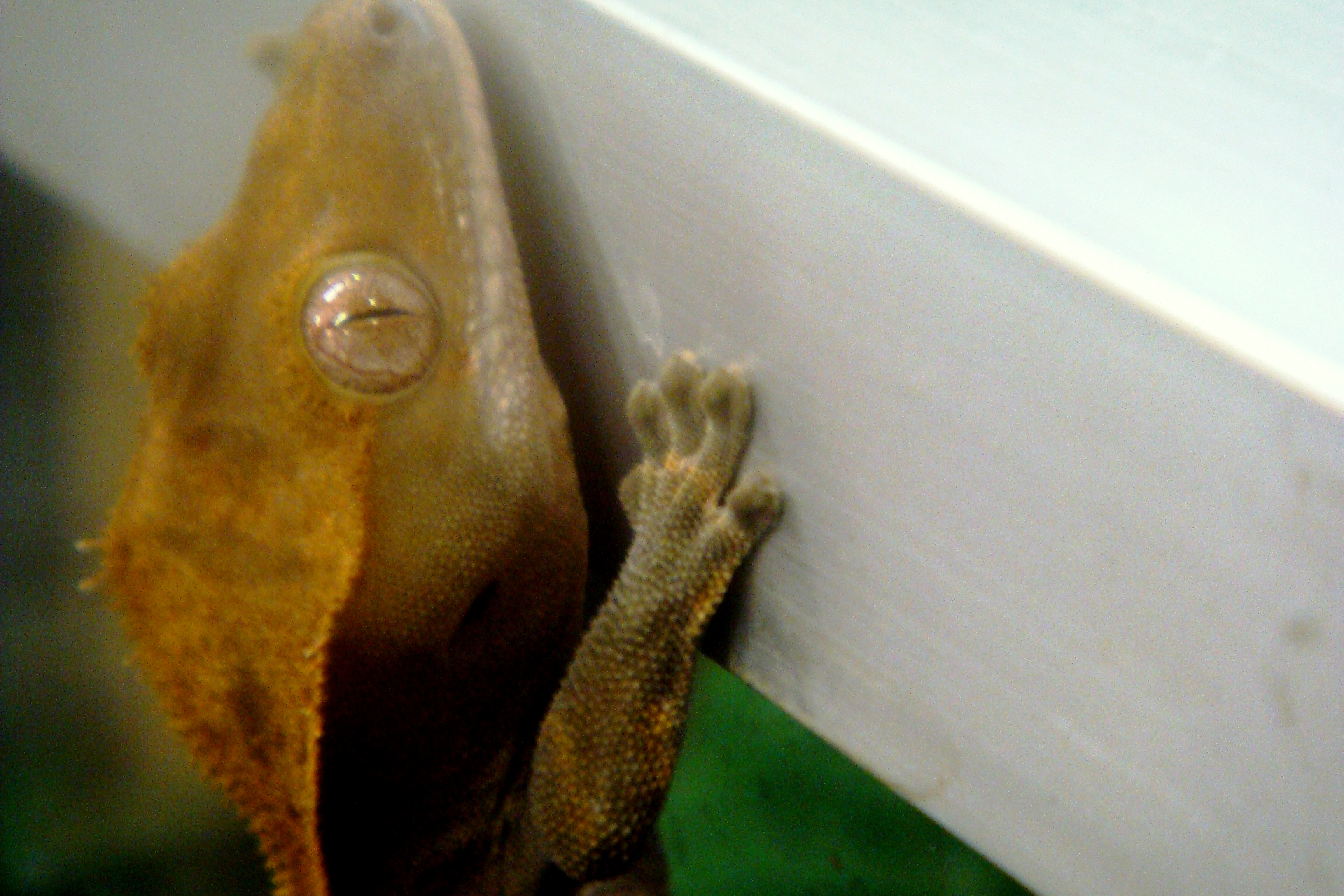 Crusted Gecko